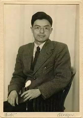 Leetsch Hsu in Glasgow, Scotland, 1950